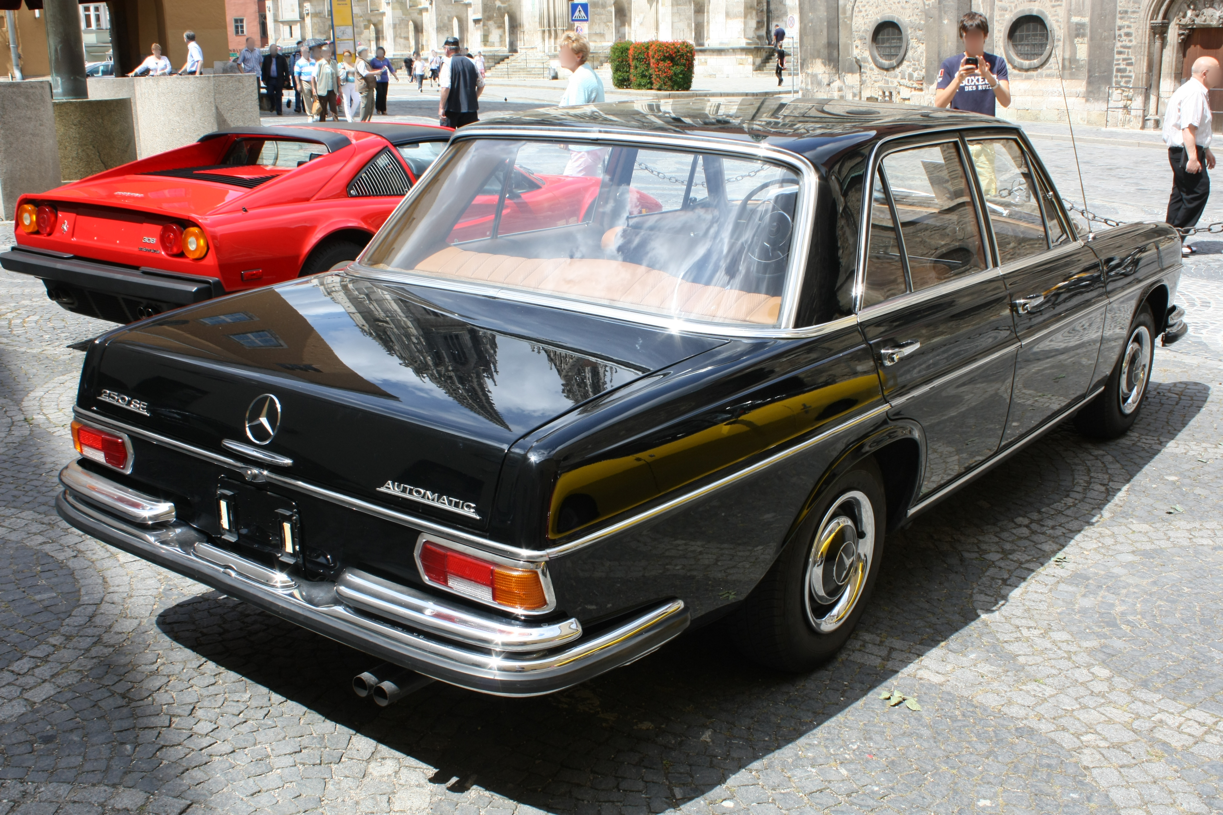 Mercedes-Benz W108 250SE Automatic